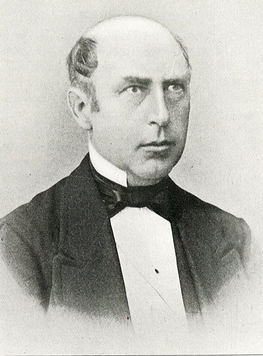 John Collett Falsen (1817-1879), Norwegian jurist, civil servant, and politician, MP